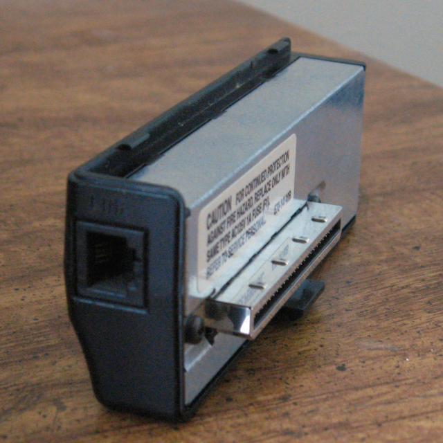 A black 56k Dreamcast modem.